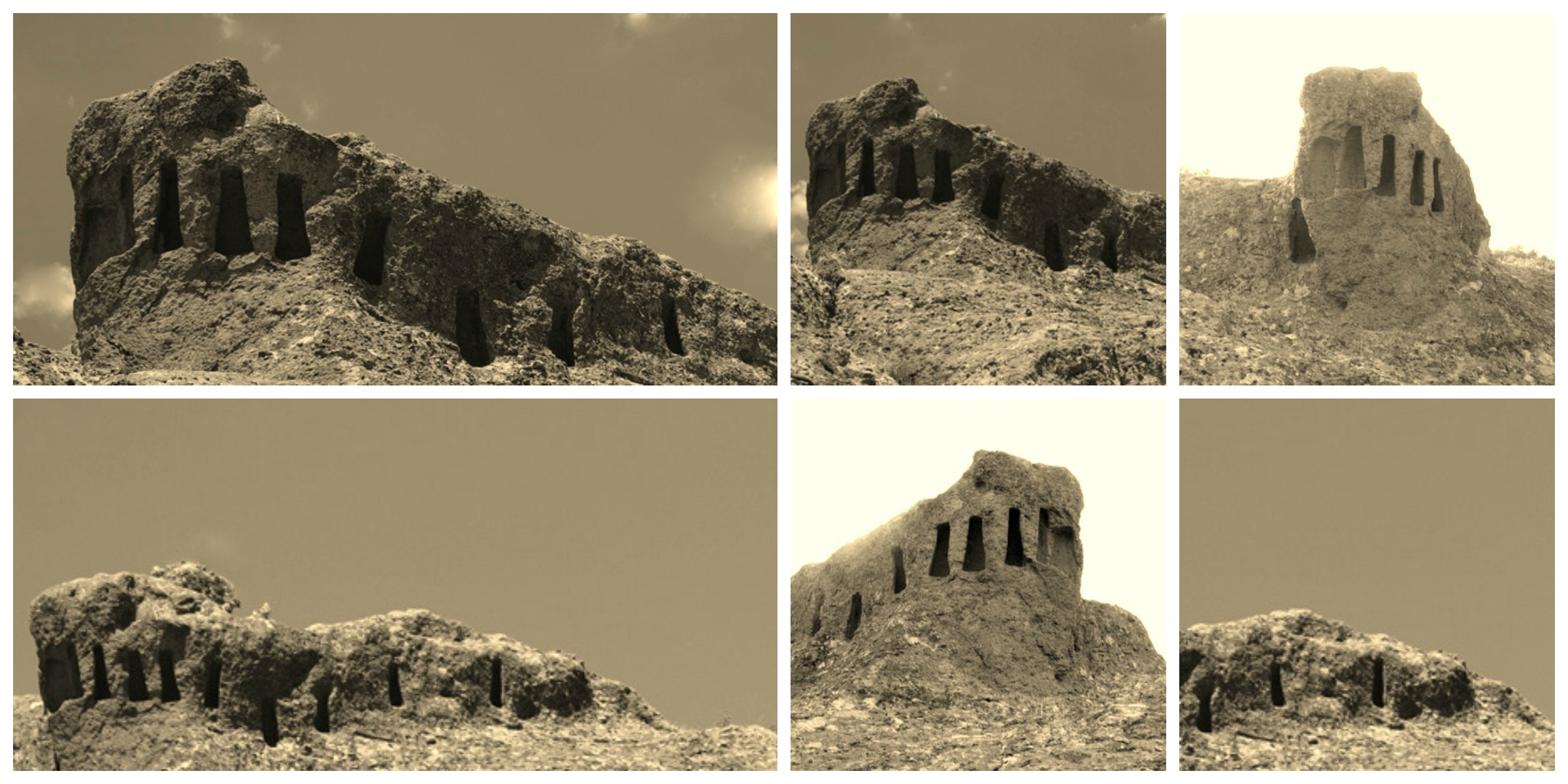 Chukovo theLion BG